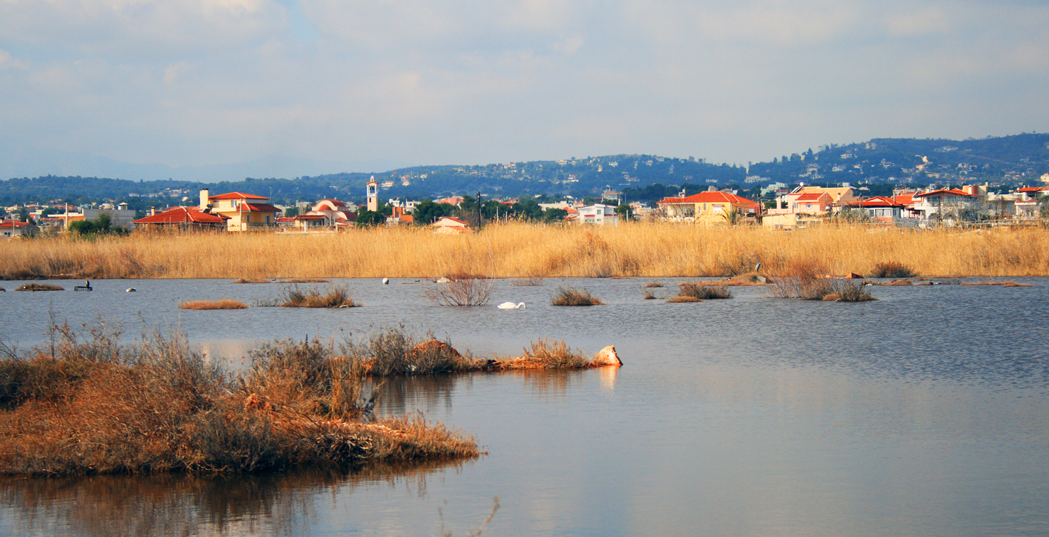 Wetland of Aliki, Greece